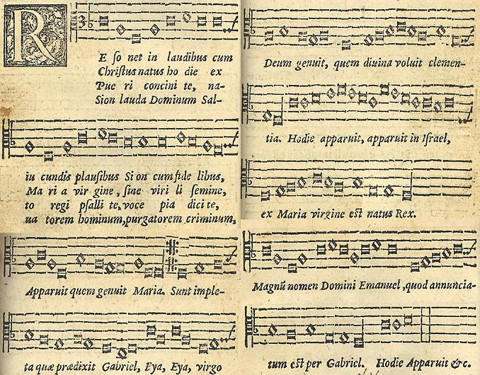 The first page of Resonet in laudibus in the original version of Piae Cantiones